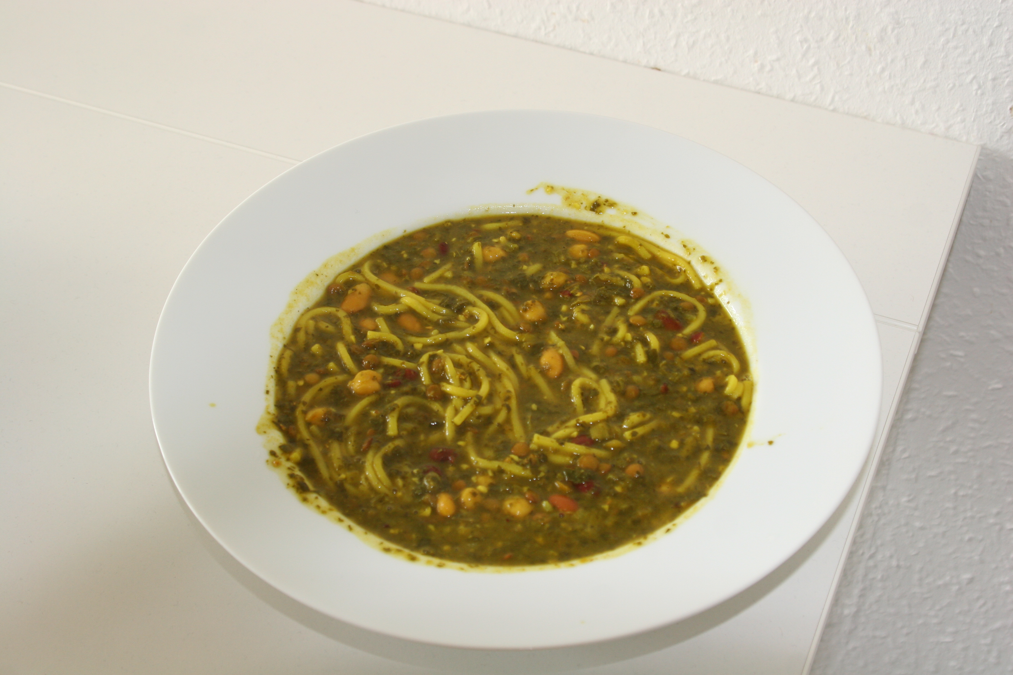 Vegan version of Ash Reshteh (Iranian thick soup)